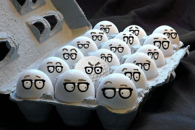 Metaphoric/Conceptual Challenge (INTEGRATION) Photo Manipulation ( Paint Shop Pro )